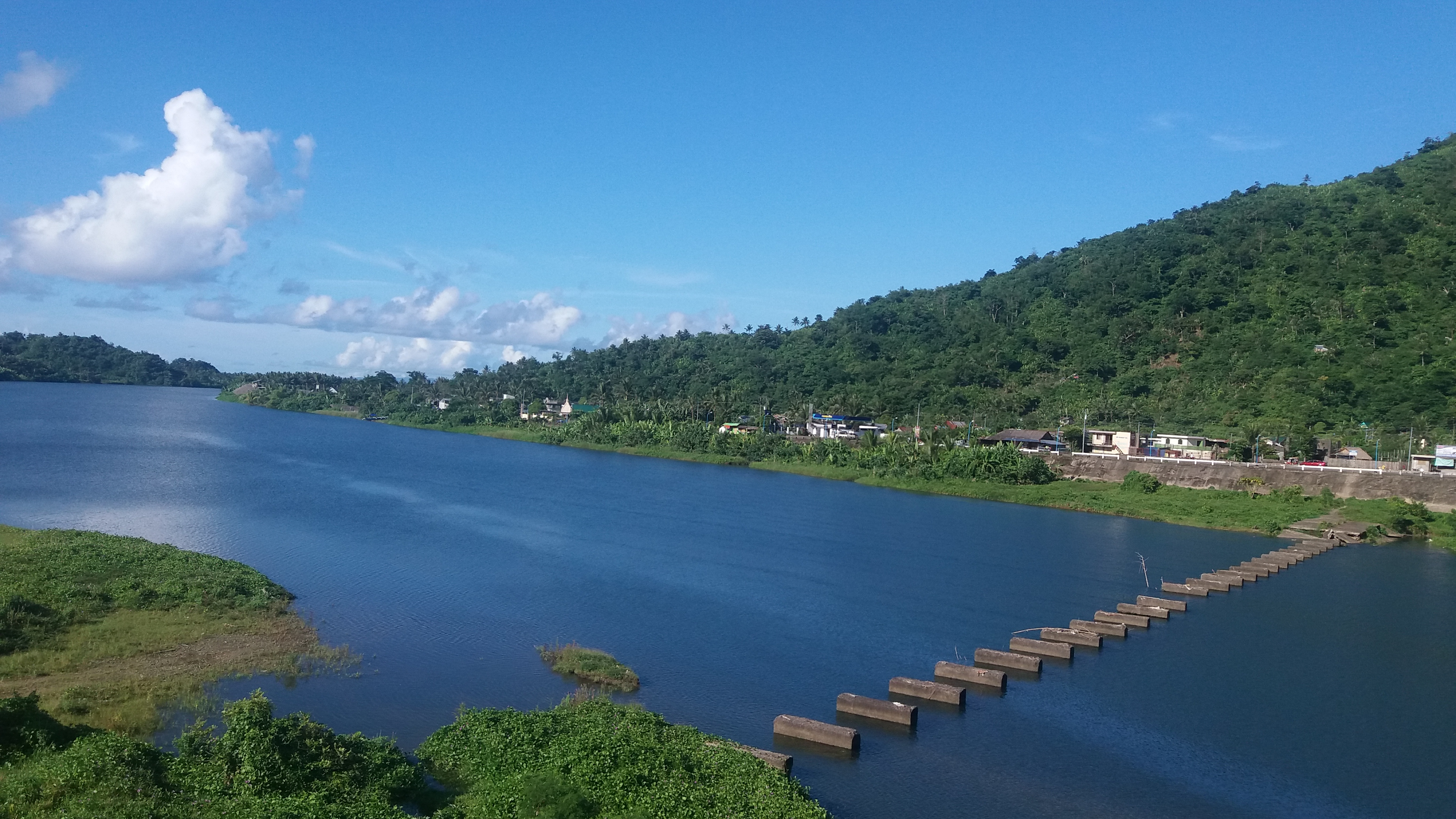 Bato river in Catanduanes